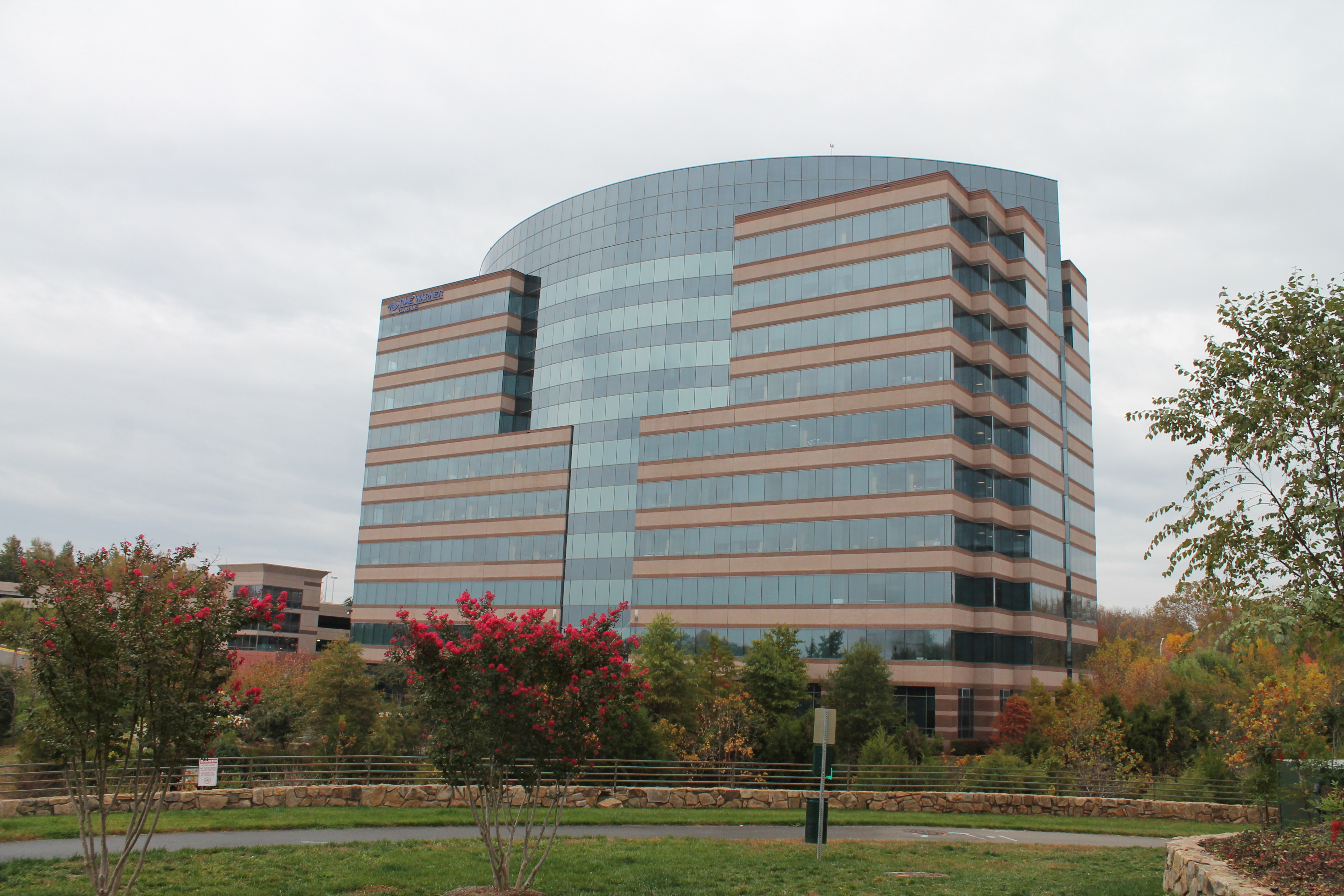 Dulles Corner Park Walk off Sunrise Valley Drive near Coppermine Road in Herndon VA on Sunday morning, 28 October 2012 by Elvert Barnes Photography Times Warner / Cable Building South Lake at Dulles Corner 13820 Sunrise Valley Drive Herndon VA Learn more about the March 2012 sale of this property read Cassidy Turley press release at